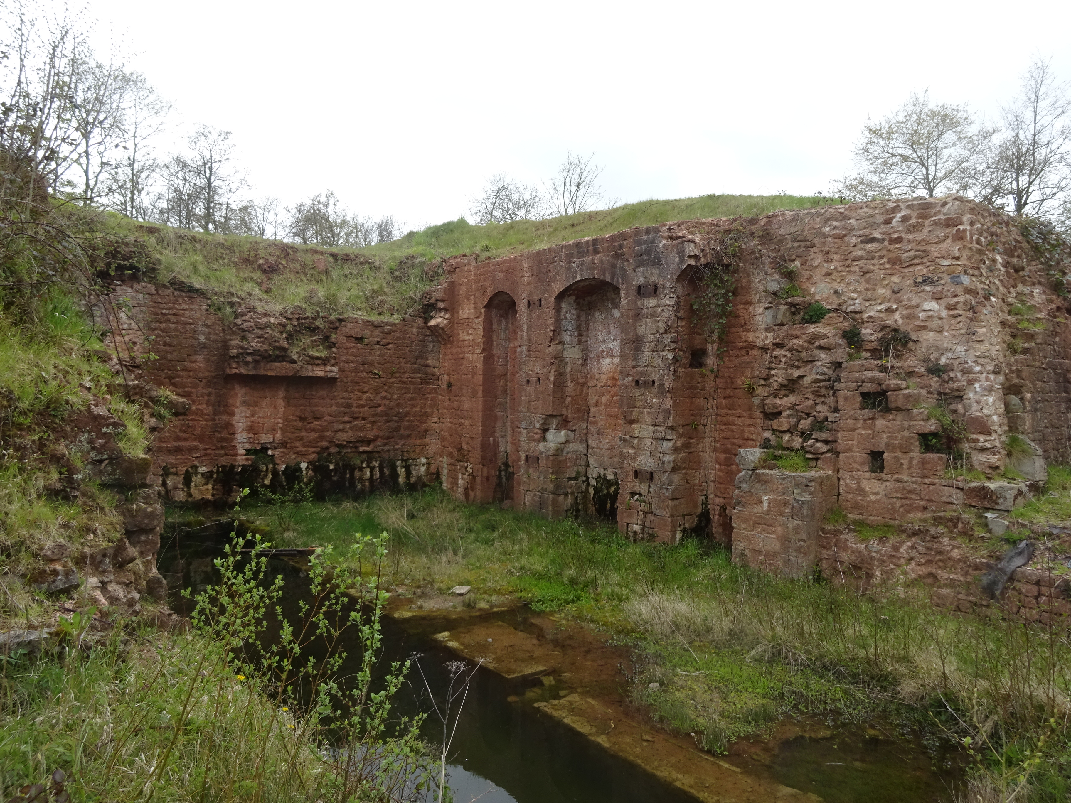 The best surviving example of the boat lifts on the Grand Western Canal built in the 1830s. The machinery was removed when this section of the canal closed in 1865.